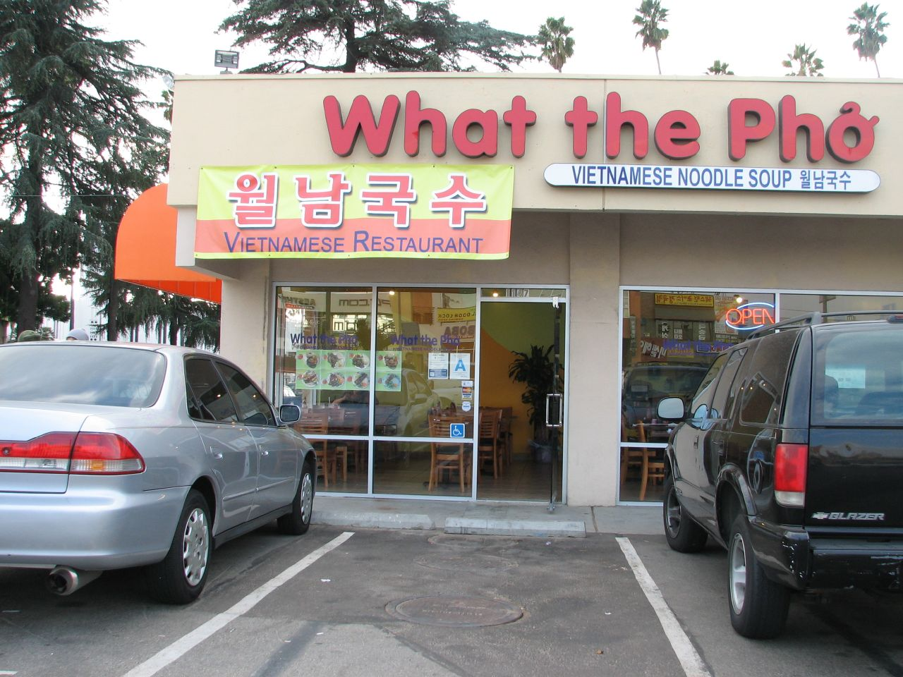 California: "What the Phở", a restaurant - The name is a word play off of "What the Fuck"